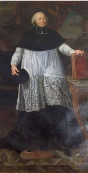 Jean IV Louis-Aynard de Clermont-Tonnerre, last abbot of l'Abbaye de Luxeuil